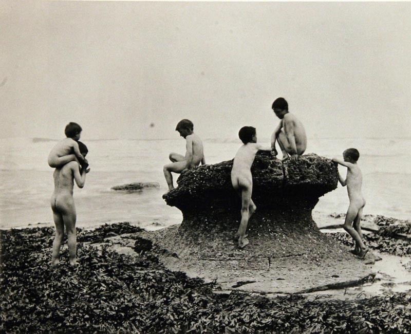 Waterrats, around 1900